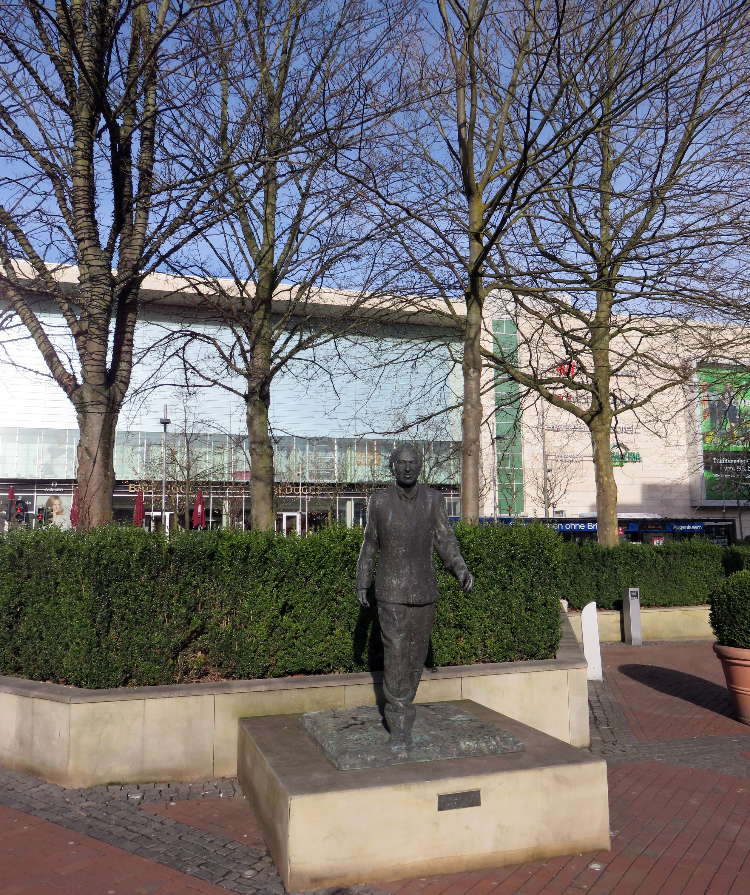 Sculpture in memory of businessman Werner Otto (1909-2011) opposite shopping mall “Alstertal-Einkaufszentrum“ in Hamburg-Poppenbüttel, created by sculptor Bernd Stöcker on the occasion of Otto's 100th birthday 2009.